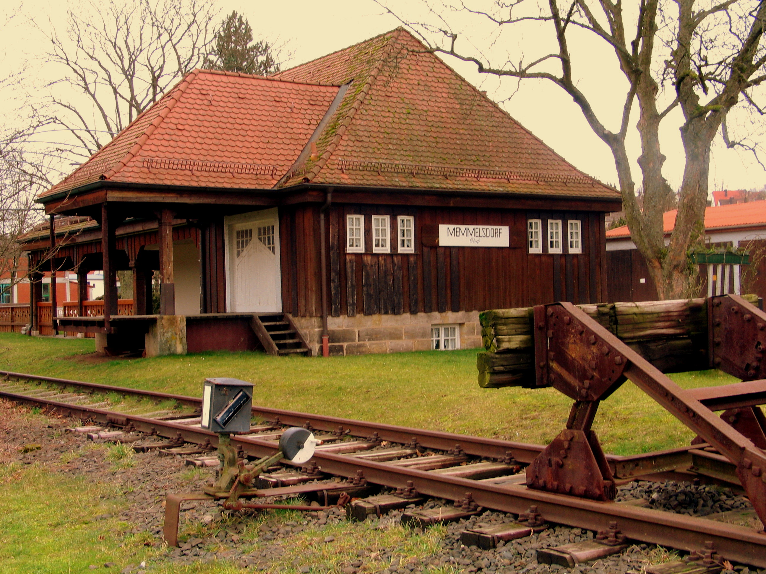 Memmelsdorf (near Bamberg): Train station at the suspended railway line from Bamberg to Scheßlitz.